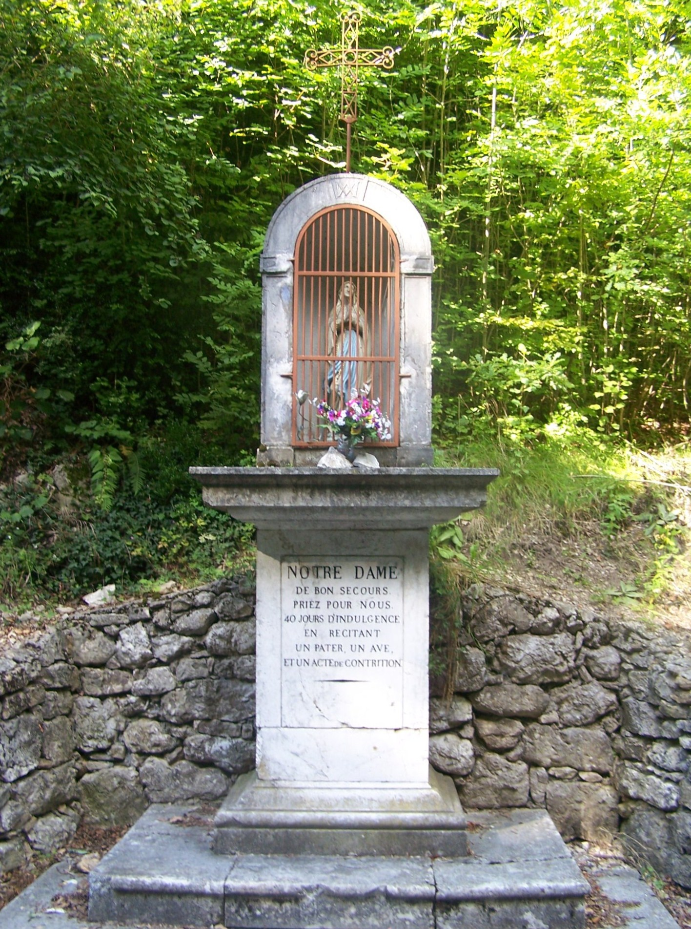 Notre-Dame de bon secours statue at the col du Chat pass, in Savoie, France.